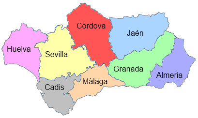 Map of the provinces of Andalusia.